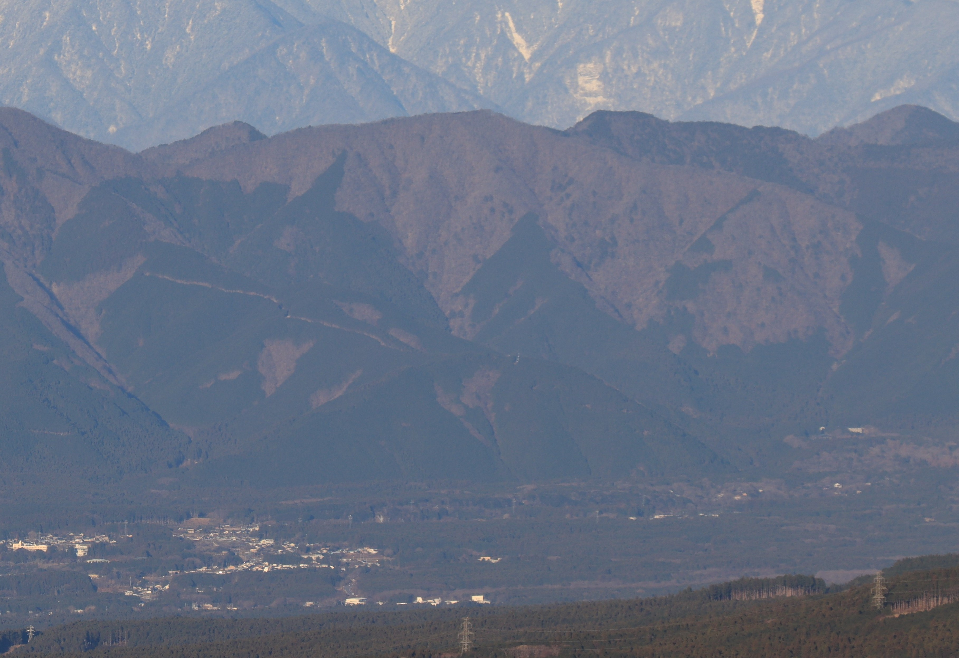 Mount Choja seen from Mount Echizen in Fujinomiya, Shizuoka Prefecture, Japan.